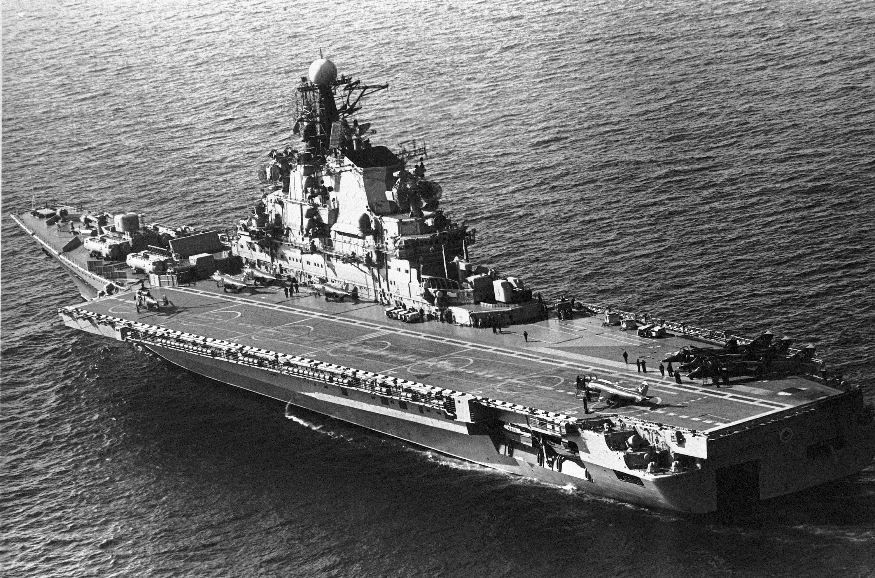 A port quarter view of the Soviet aircraft carrier KIEV (CVHG 051) underway.